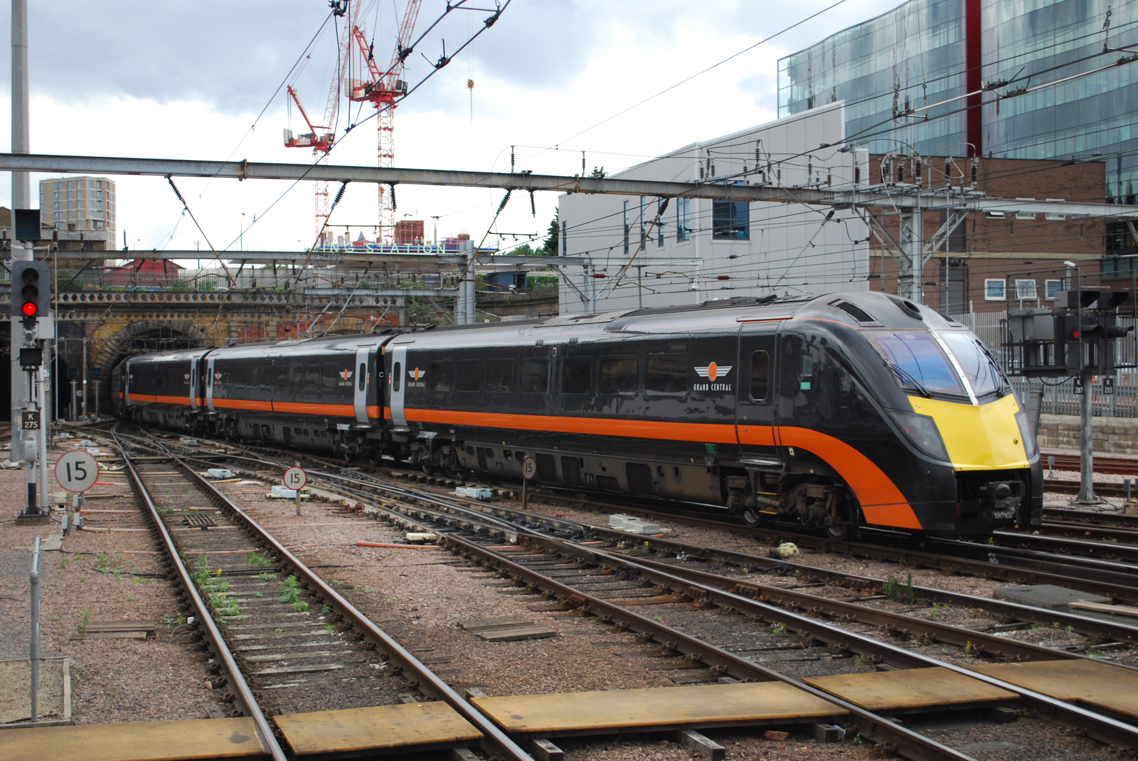 Alstom (Birmingham) Class 180 "Coradia" (ex-"Adelante") 5-car dmu No.180 107 "Hart of the North" of Grand Central in its livery arriving at King's Cross on a service from Bradford, 08/12.